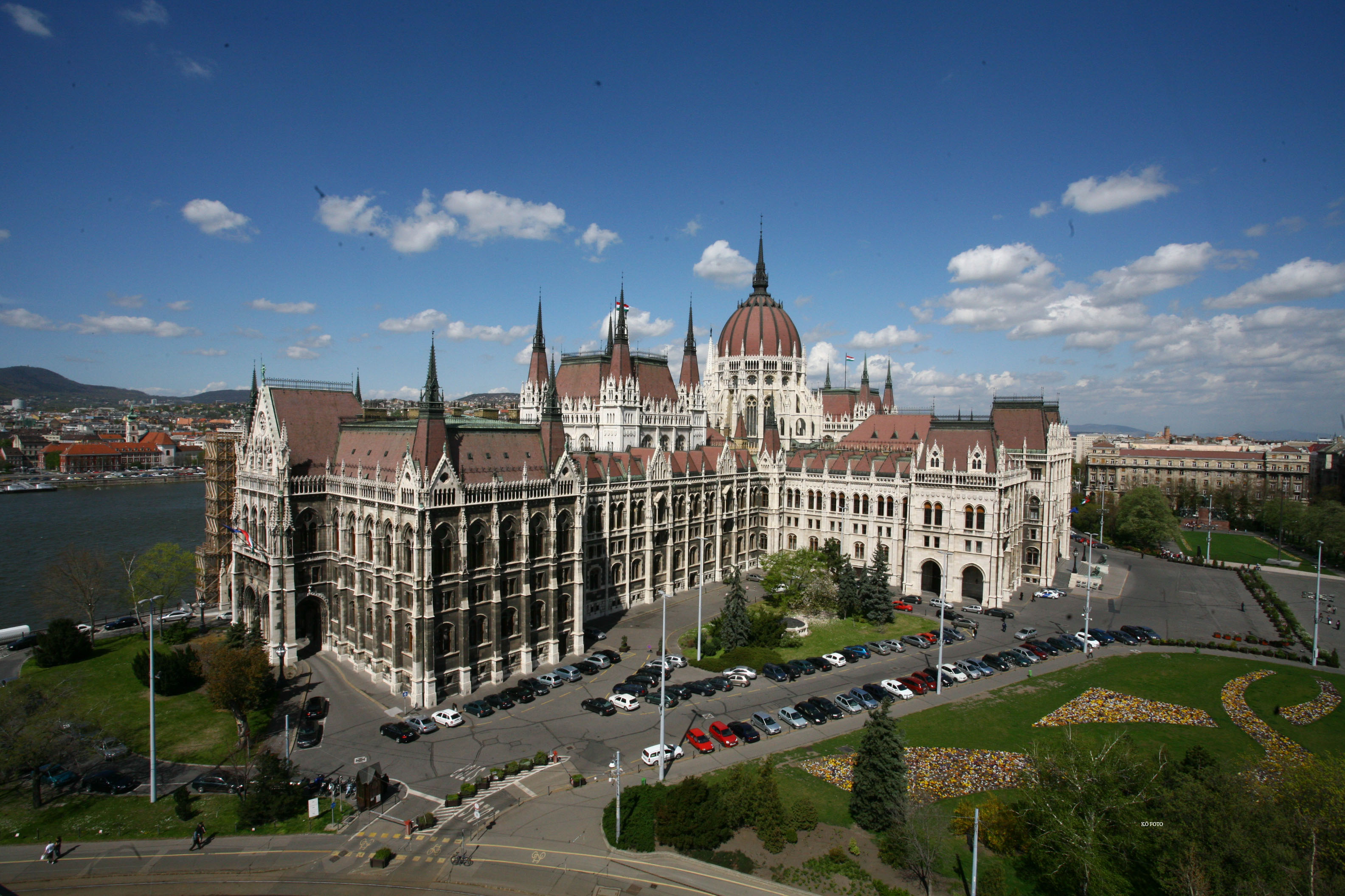 The Hungarian Parliament. Photo was taken from the top of the MTESZ building